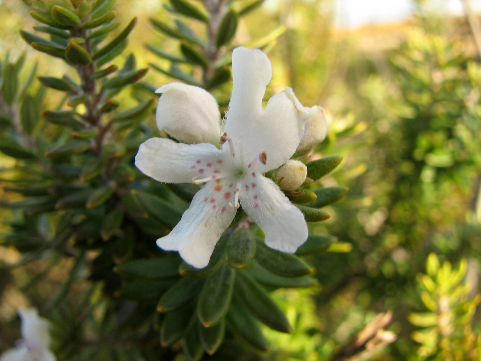 Westringia fruticosa flower. Growing right on the coast in Coogee, Sydney.